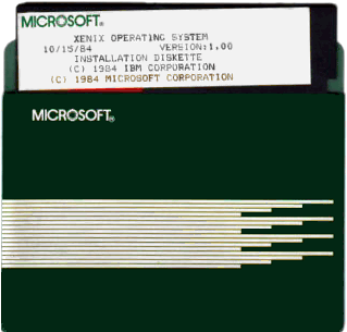 Digitally enhanced version of Ms_xenix.jpg